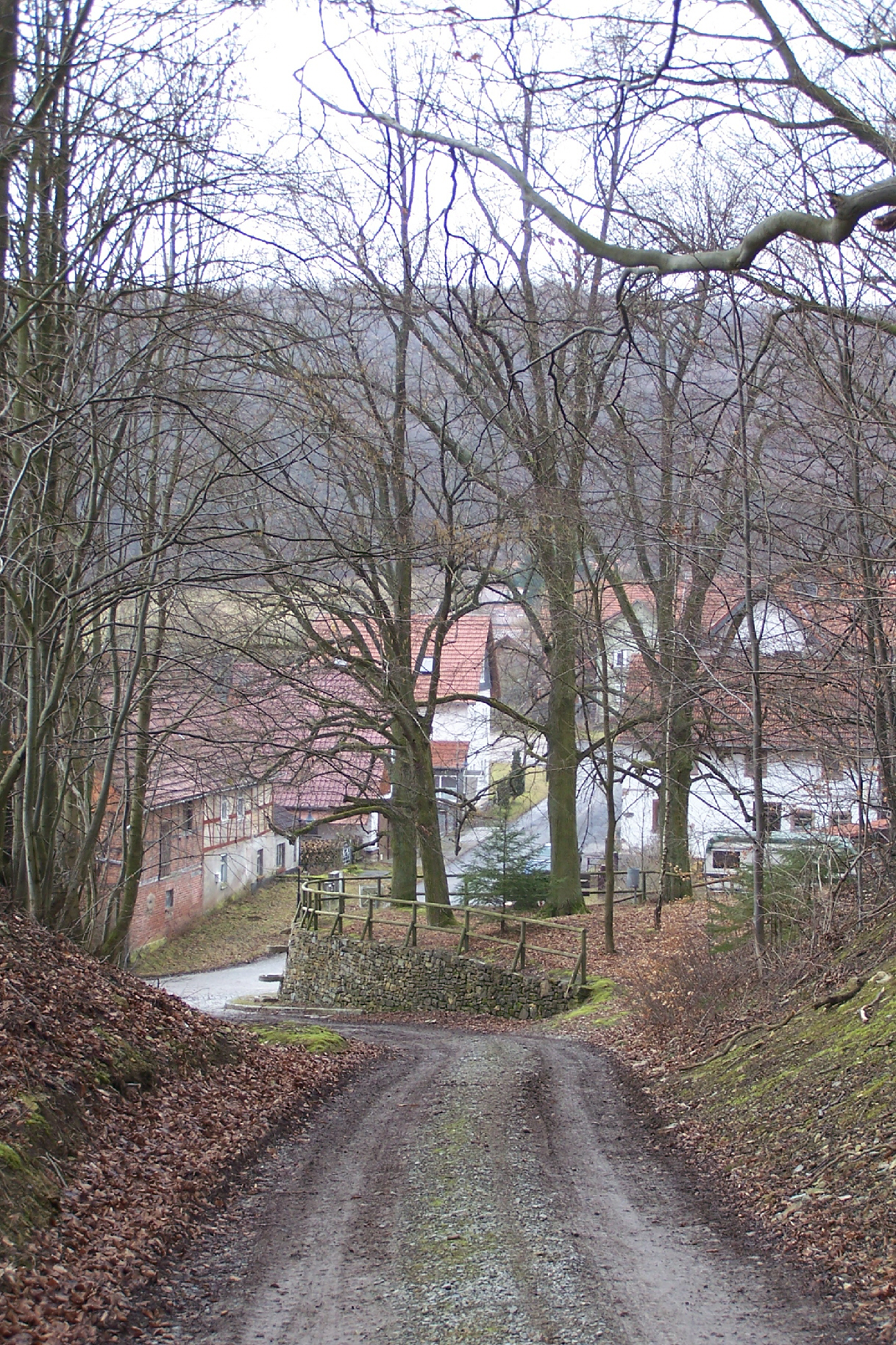 The village green in Wolfmannsgehau.